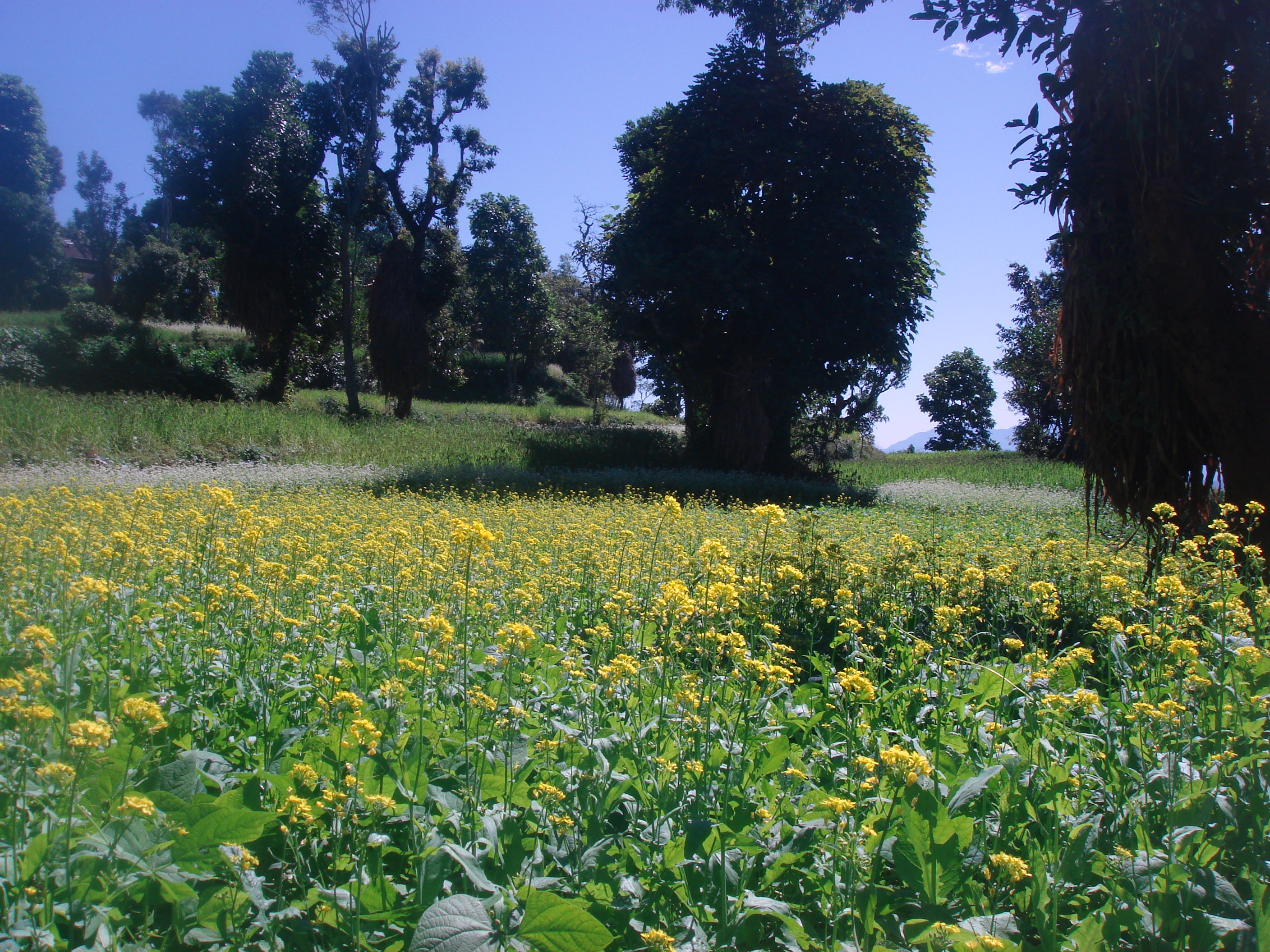 A view of Okaldhunga